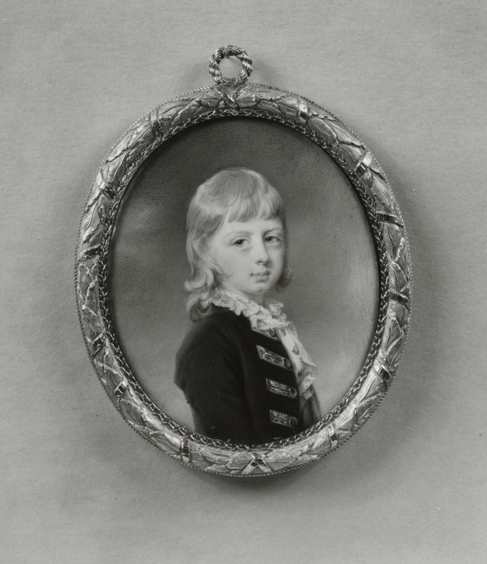 At the age of 15, the German-born Meyer was taken to London, where he studied with Christian F. Zincke, a specialist in painting in enamel on copper. In 1764, he became painter in miniature to Queen Charlotte and painter in enamel to George III.